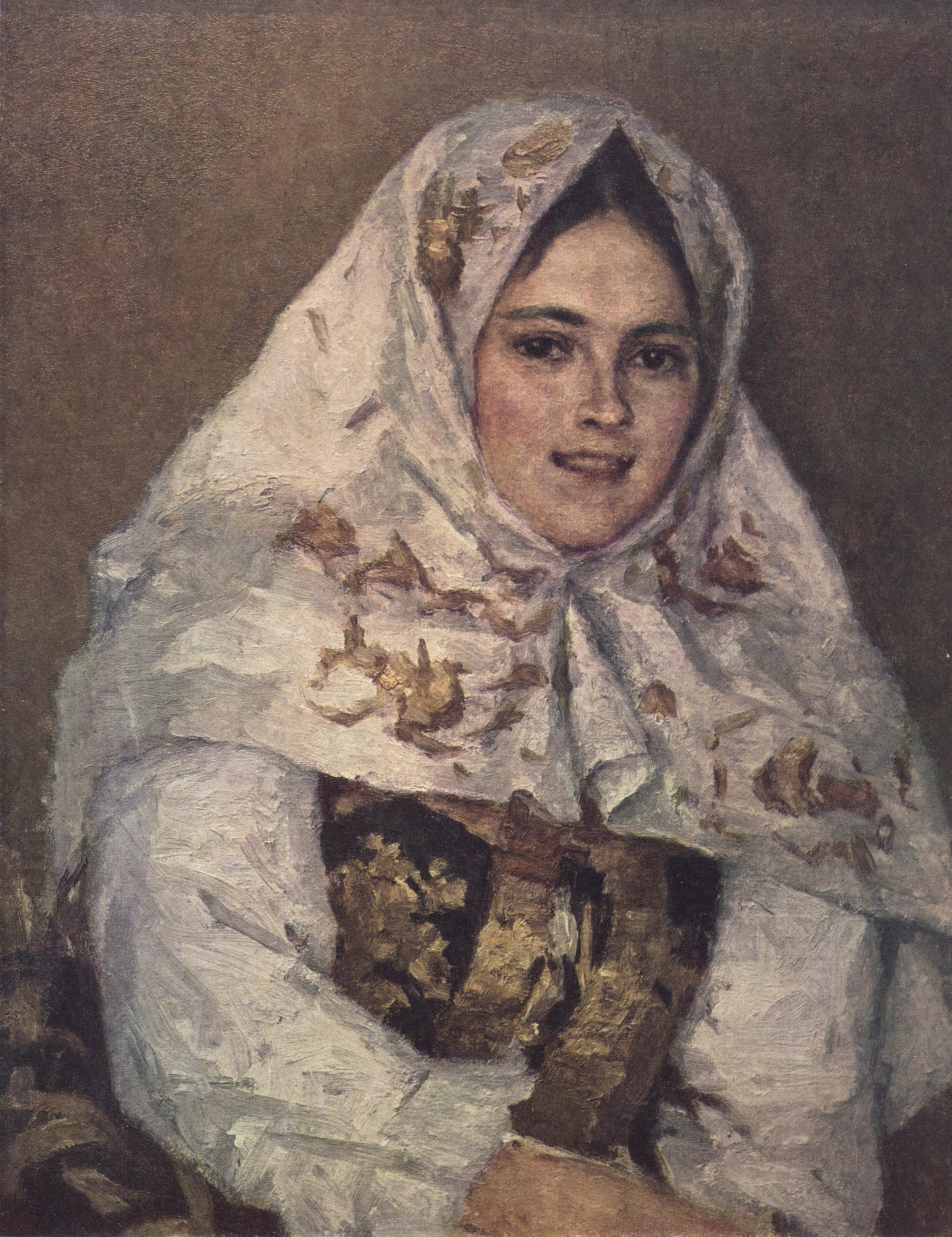 The Siberian Beauty. Portrait of E. A. Rachkovskaya. 1891.